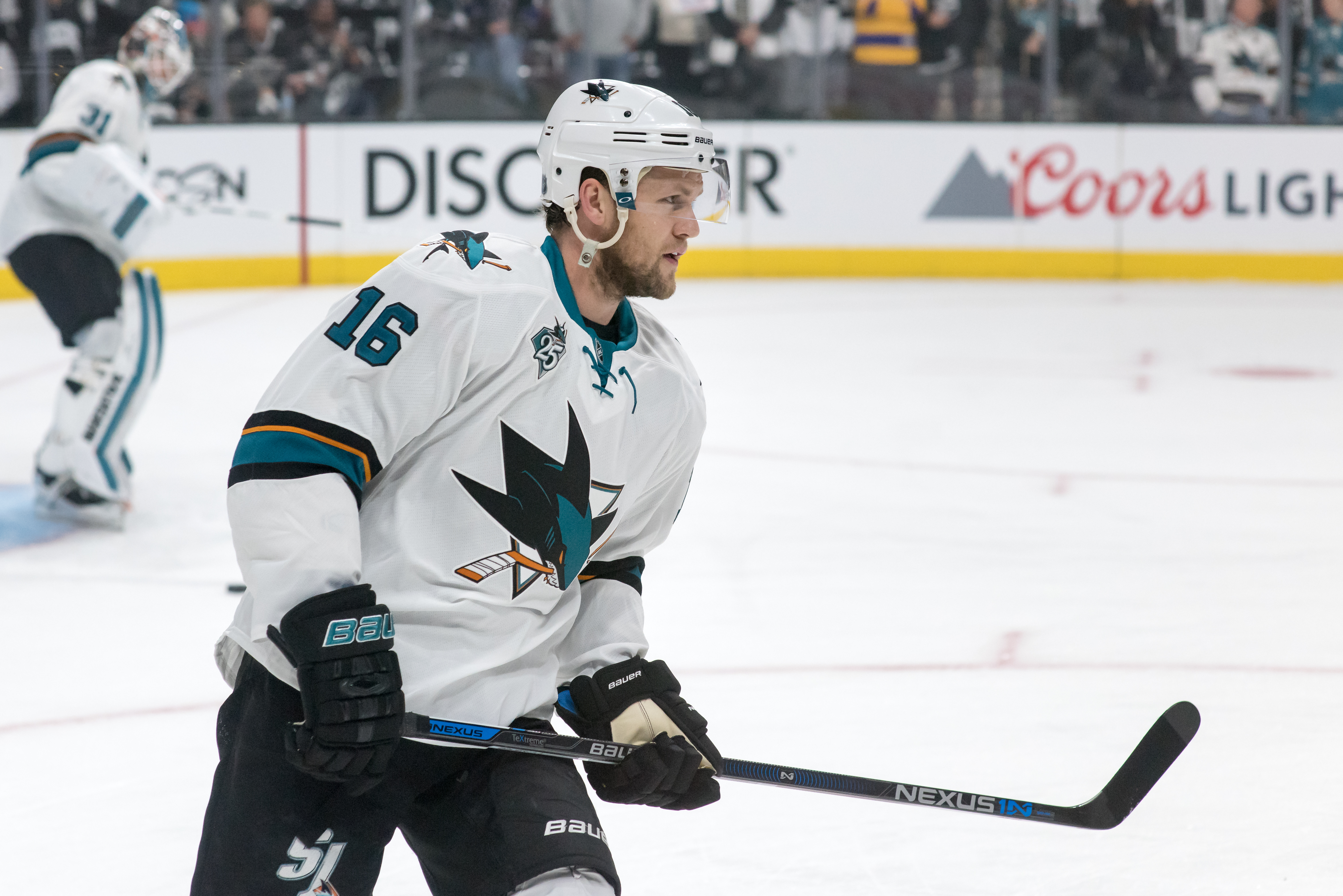 Nick Spaling in 2016